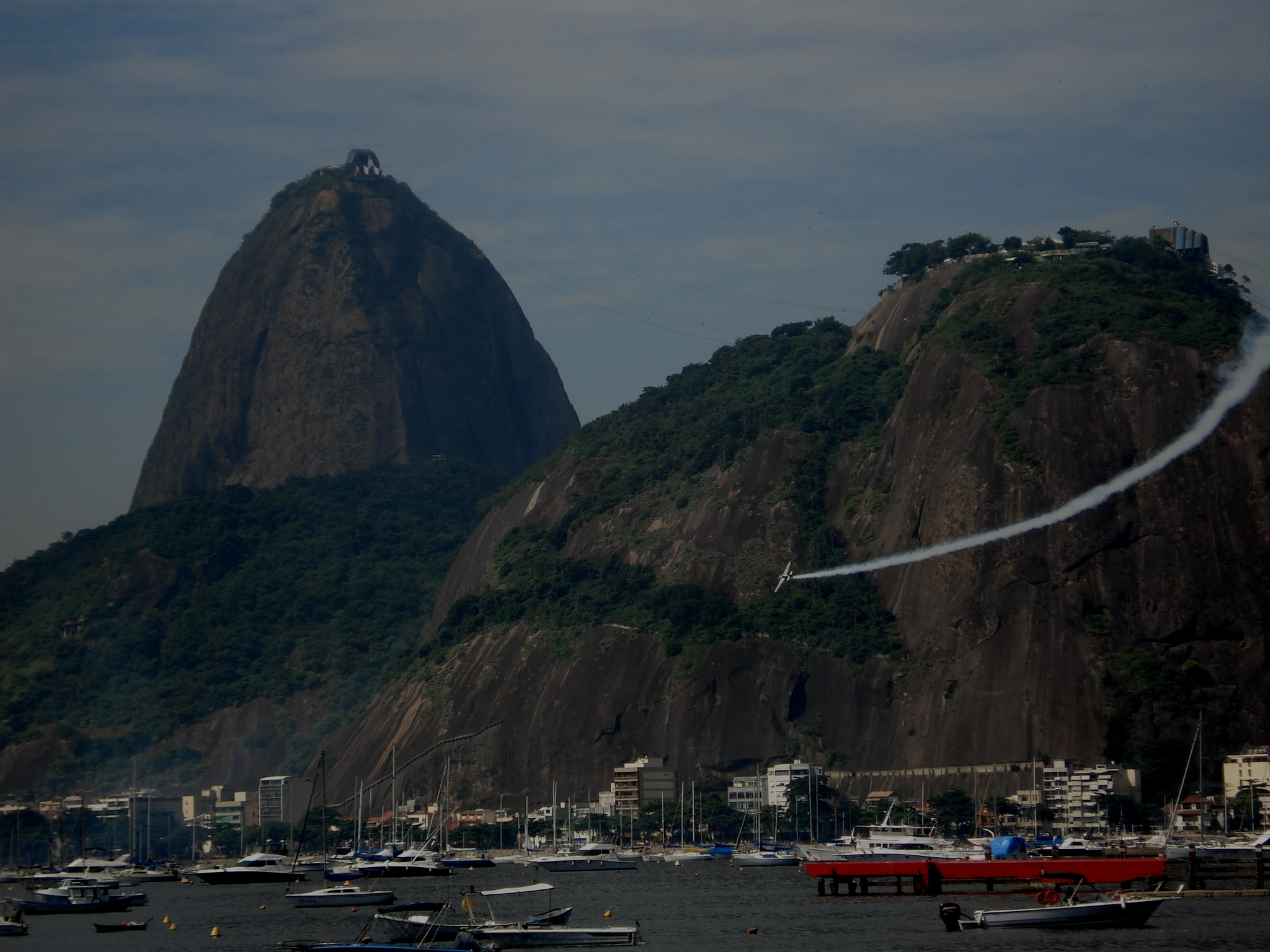 Red Bull Air Race in Rio de Janeiro (2010)